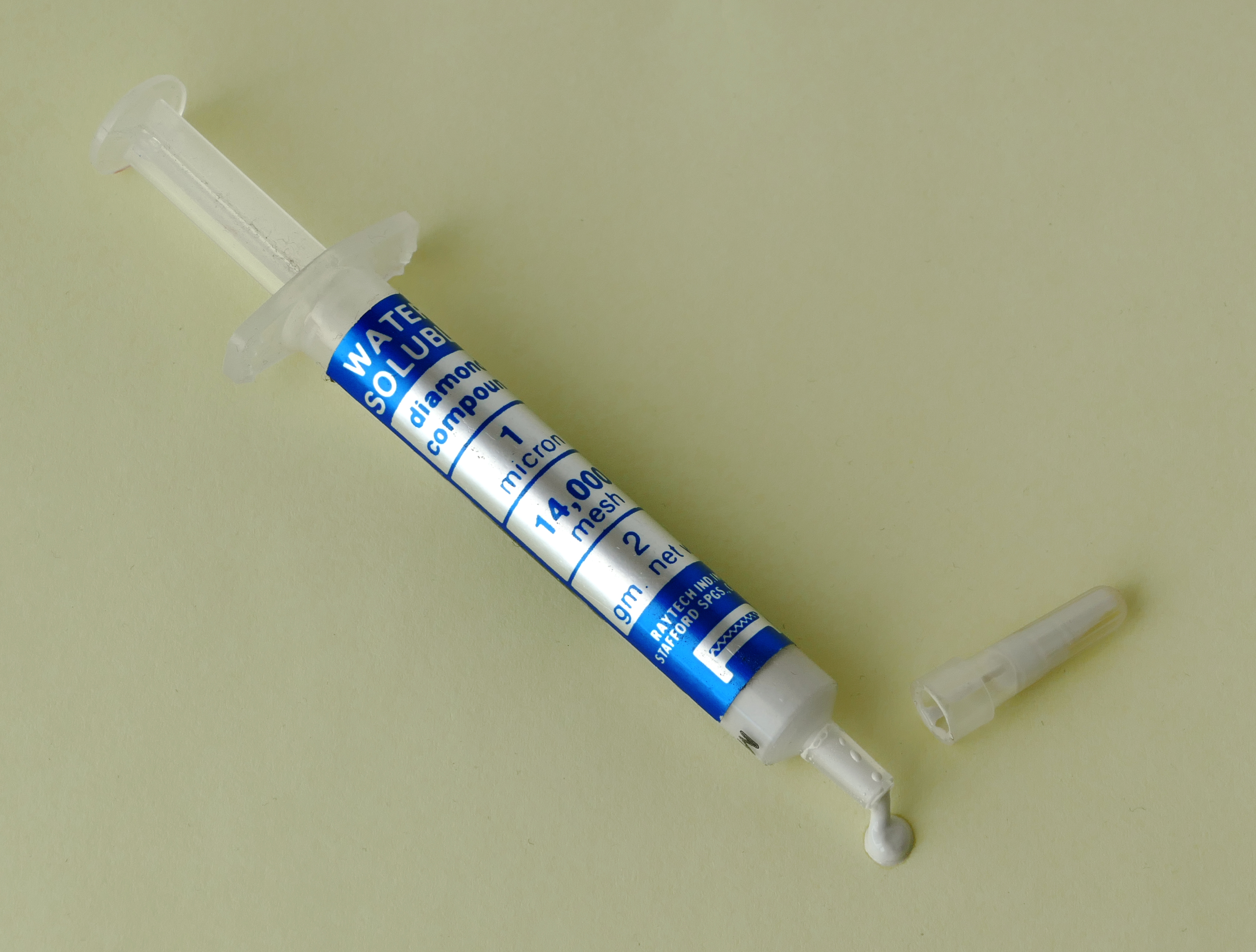 A syringe with diamond powder, grade 14,000 mesh, mixed with a liquid to be used for polishing very hard surfaces.